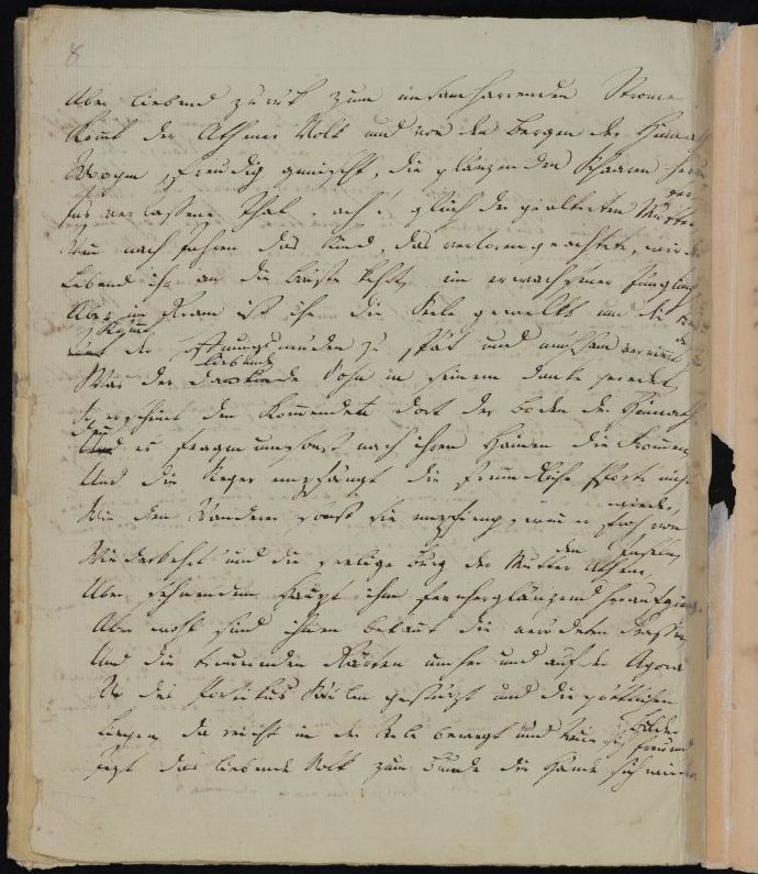 Manuscript of Friedrich Hölderlin: Der Archipelagus, page 8. From Homburg